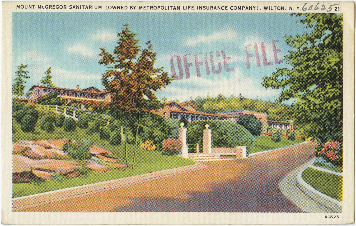 File name: 06_10_006266 Title: Mount McGregor Sanitarium (owned by Metropolitan Life Insurance Company), Wilton, N. Y. Created/Published: Date issued: 1930 - 1945 (approximate) Physical description: 1 print (postcard) : linen texture, color ; 3 1/2 x 5 1/2 in. Genre: Postcards Subjects: Notes: Title from item. Collection: The Tichnor Brothers Collection Location: Boston Public Library, Print Department Rights: No known restrictions